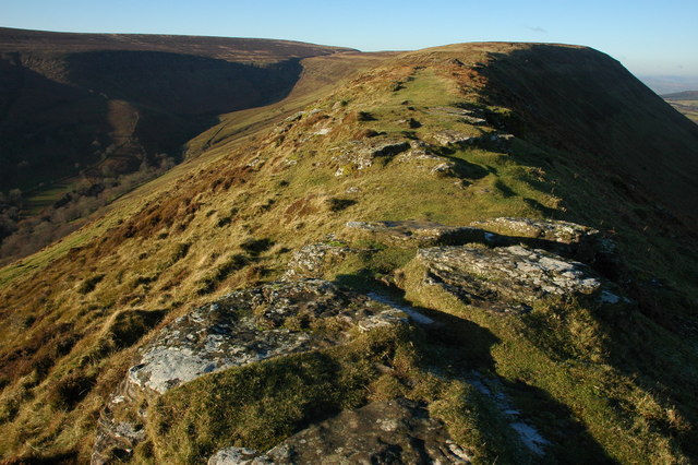 Black Hill The Cat's Back Ridge provides a wonderful route to ascend the Black Hill with the upper Olchon Valley on the left and Herefordshire stretched out below on the right.